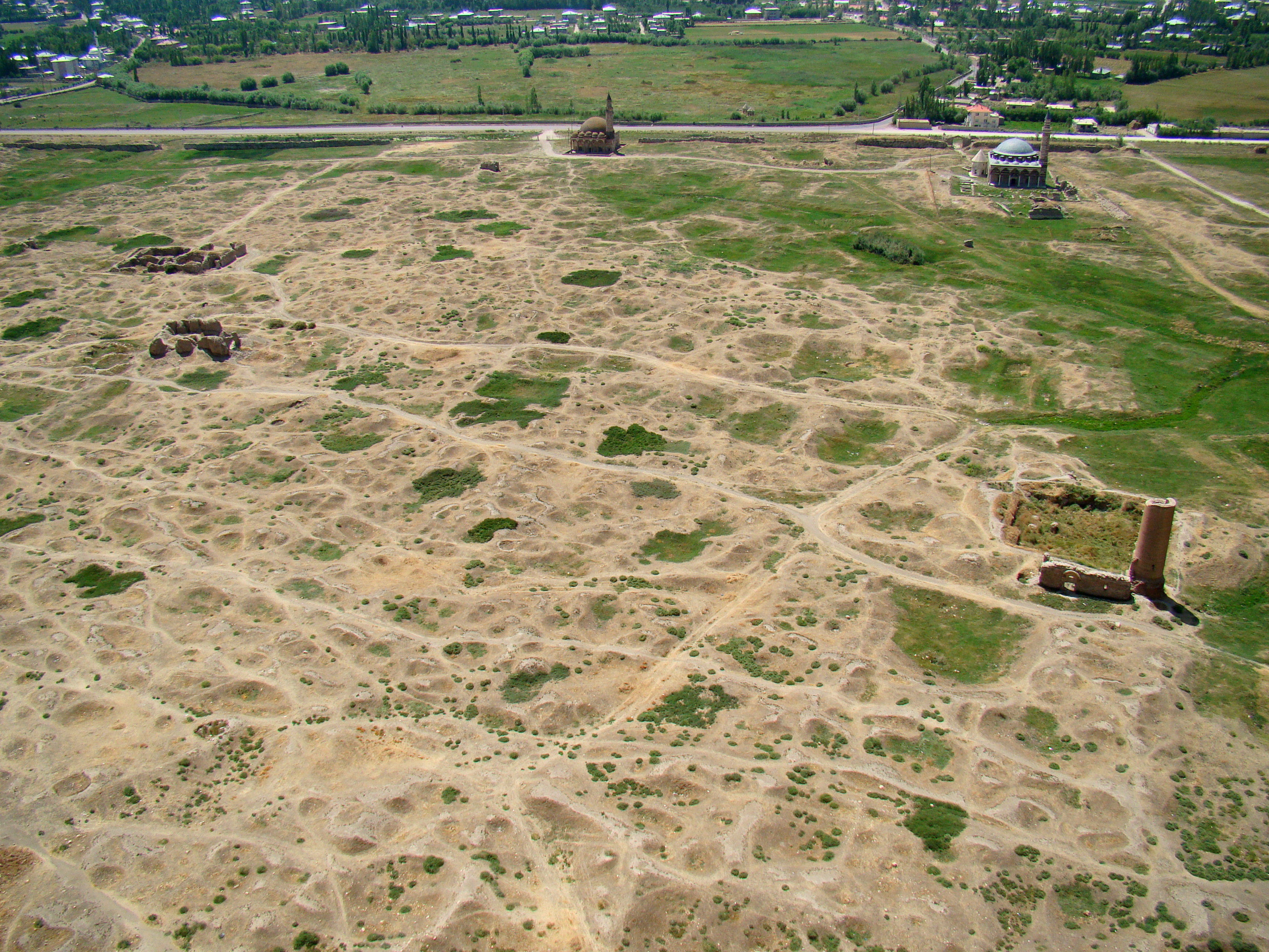 Ruins of the old city of Van, photographed from the Van Fortress, Turkey, in August 2009. Outlines of old streets and the foundations of buildings can still be recognized.